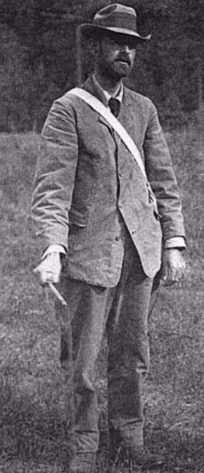 Joseph Grinnell in the field trapping for specimens, Sierra Nevada Mountains US.